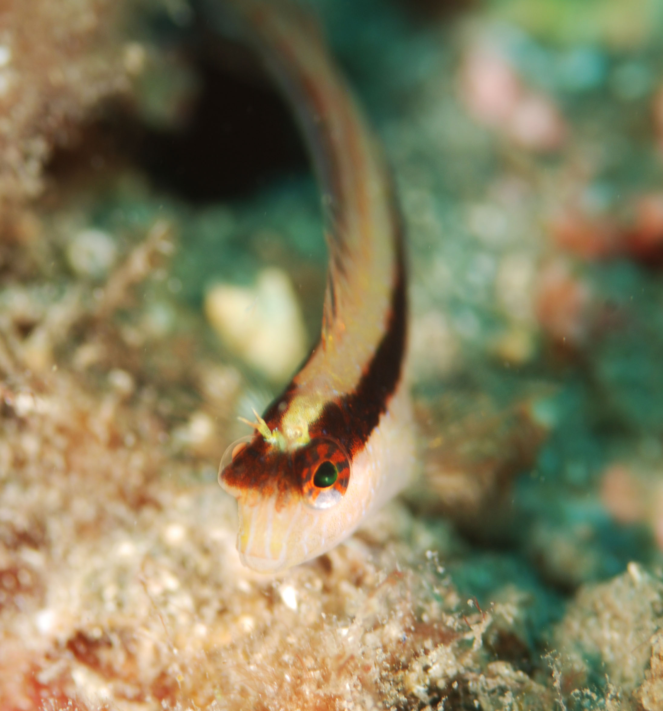 Parablennius rouxi